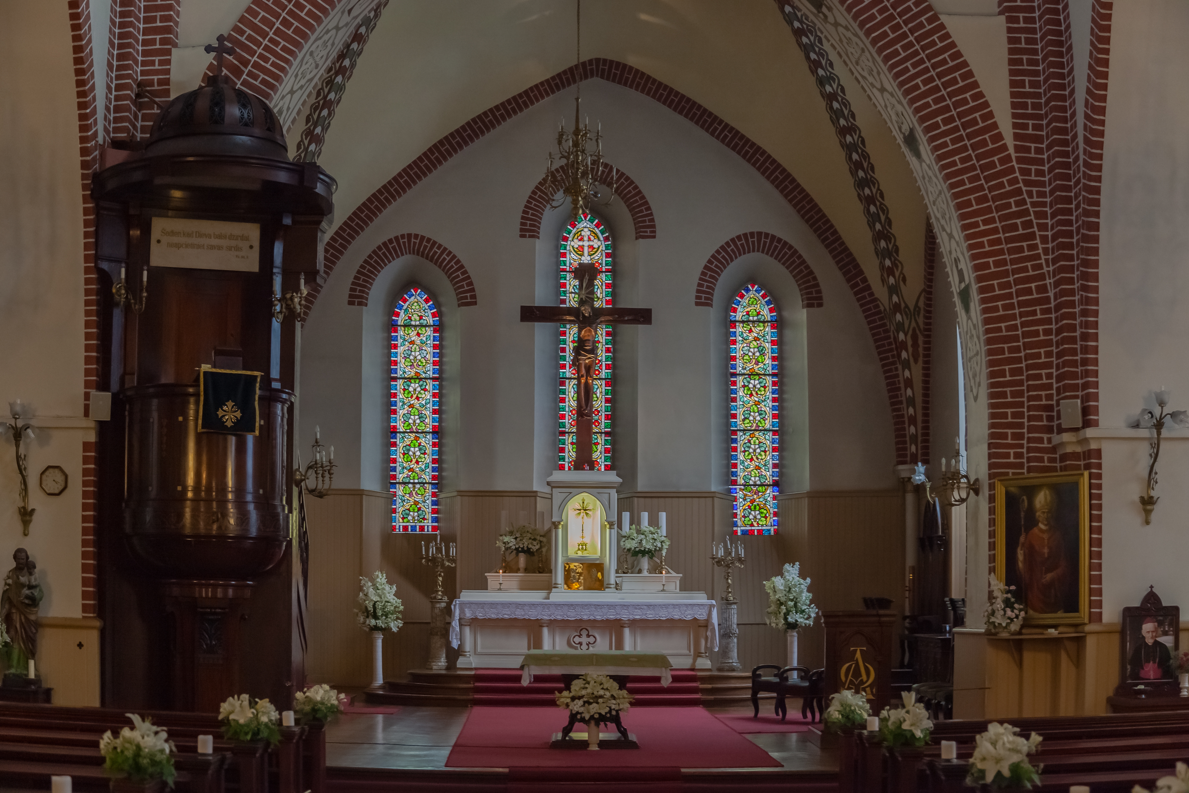 St. James's Cathedral, Riga, Latvia